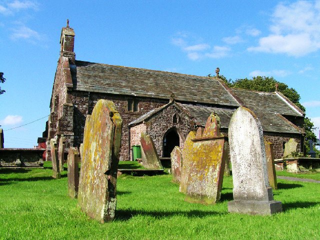 Church of St John the Evangelist, Crosscanonby. The church is typical of the small parish churches dotted across NW Cumbria.